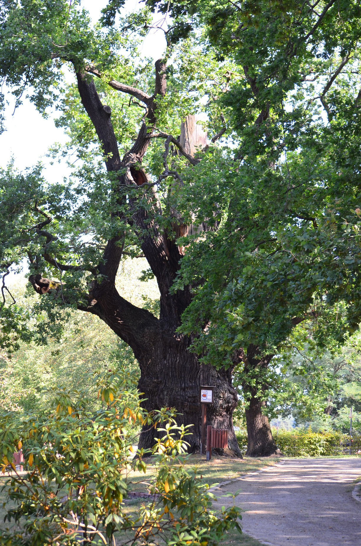 Rieseneiche in Hornow, Naturdenkmal des Landkreises Spree-Neiße Nr. 46., von Westen.